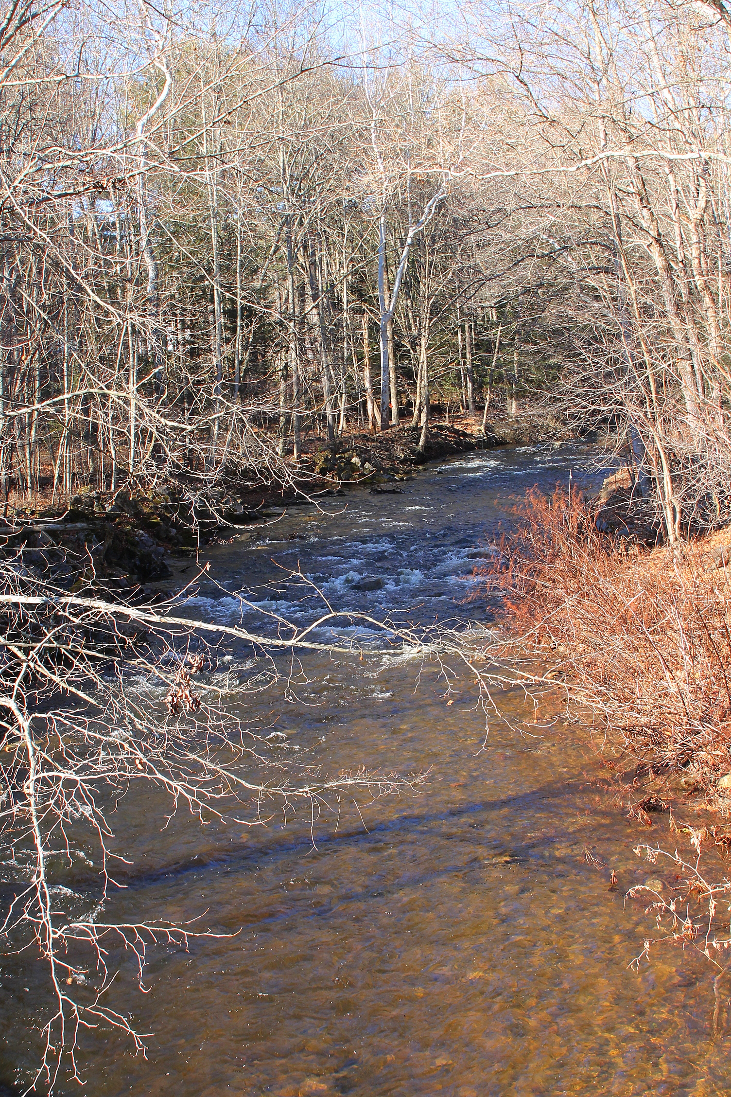 Kitchen Creek looking upstream in its lower reaches